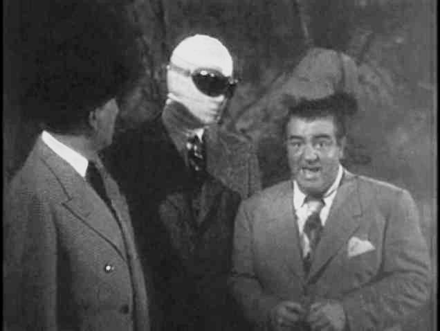 A screenshot from the trailer for the American comedy horror film Abbott and Costello Meet the Invisible Man (1951).